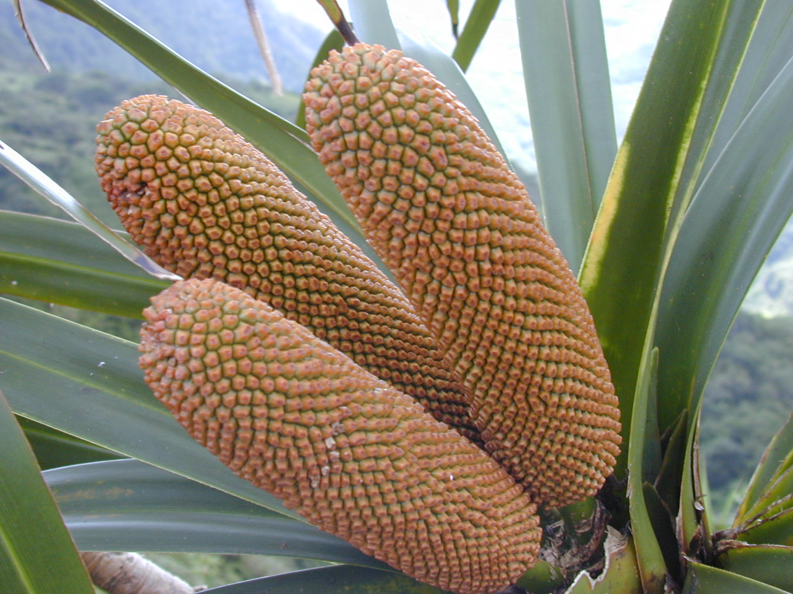 Freycinetia arborea (fruits). Location: Maui, Waihee Ridge Trail